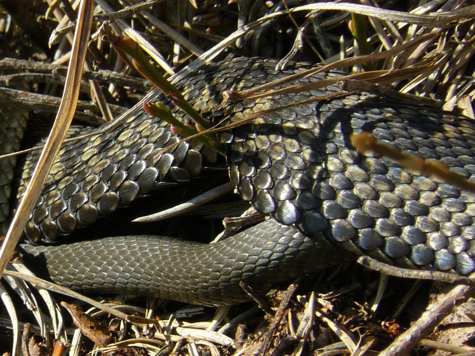 Vipera berus and Natrix natrix.